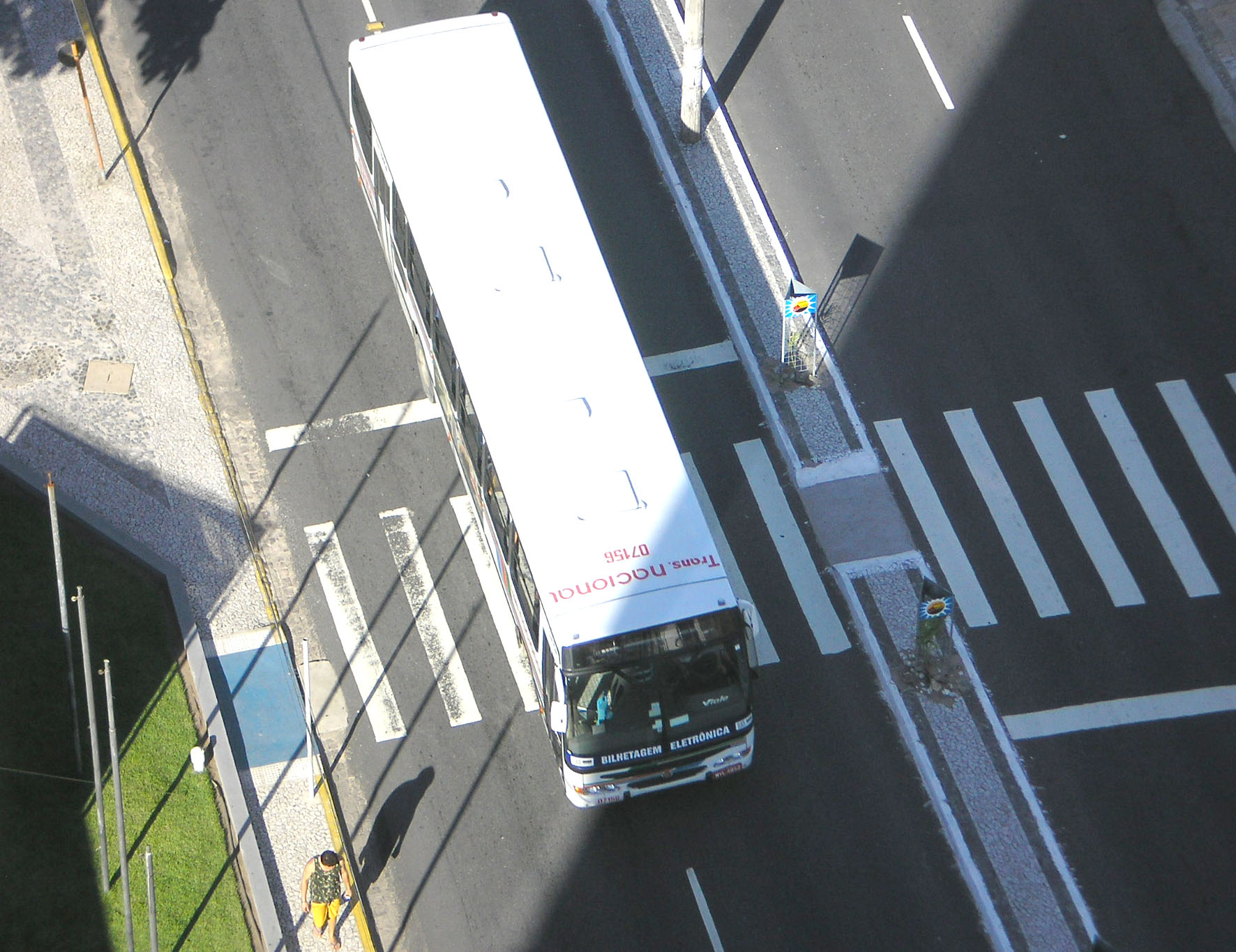 Bus changing lane in Joao Pessoa